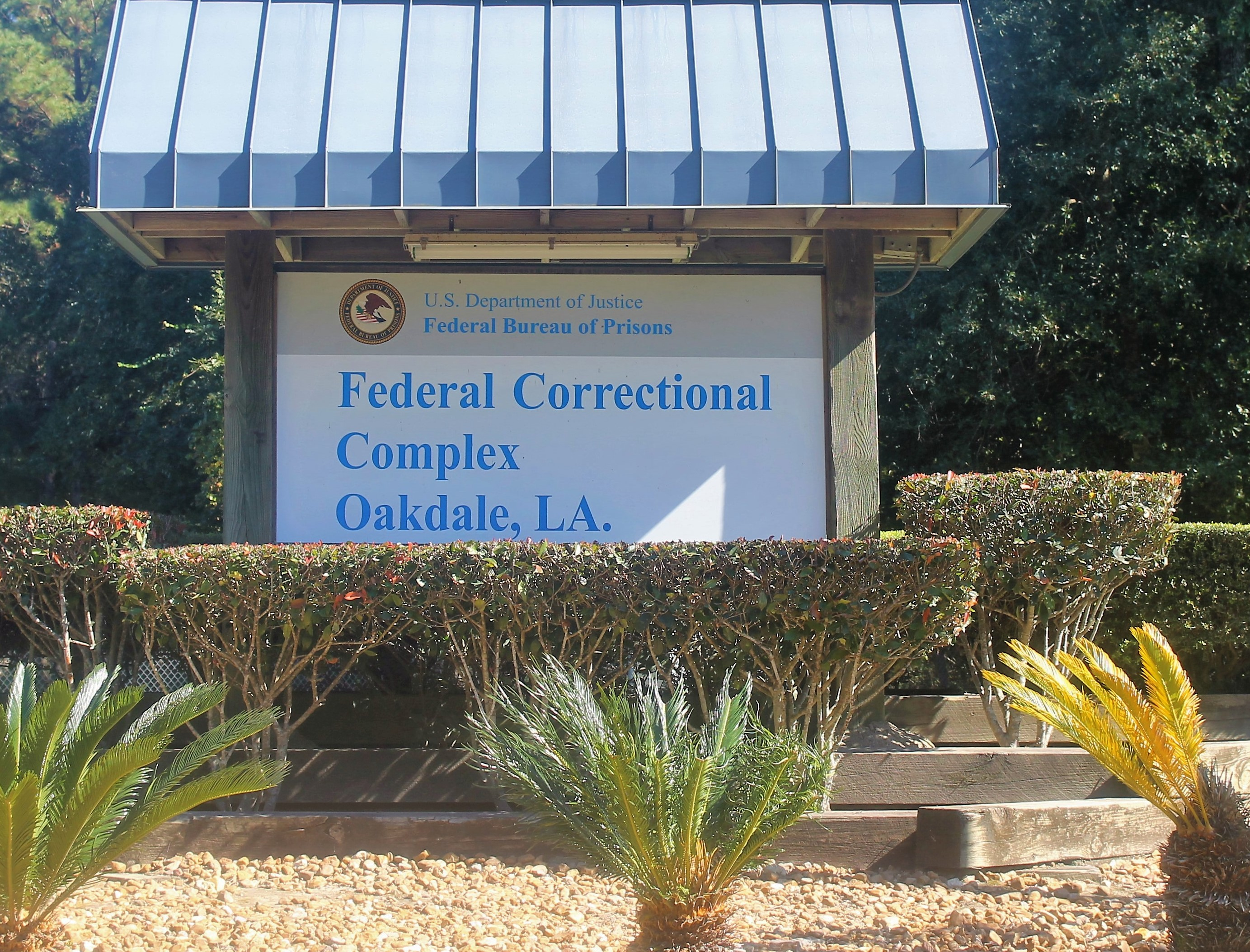 Entrance to Federal Correctional Institute in Oakdale, LA